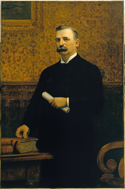 Oil painting of Governor Andrew Ryan McGill Painter: Carl Gutherz (1844-1907) Art Collection, oil 1889 Location no. AV1996.9.11 Negative no. 83163